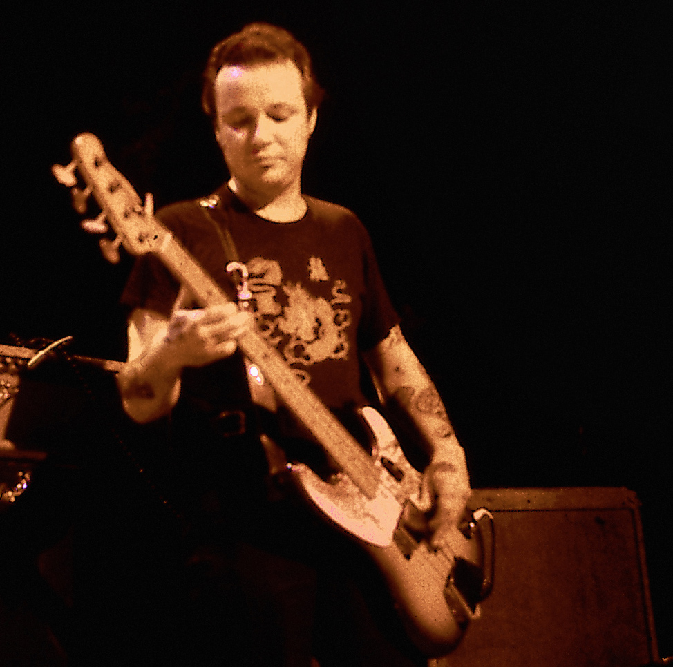 Keith Ferguson, formerly of the Fabulous Thunderbirds with Stevie Ray Vaughan and other blues-rock legends